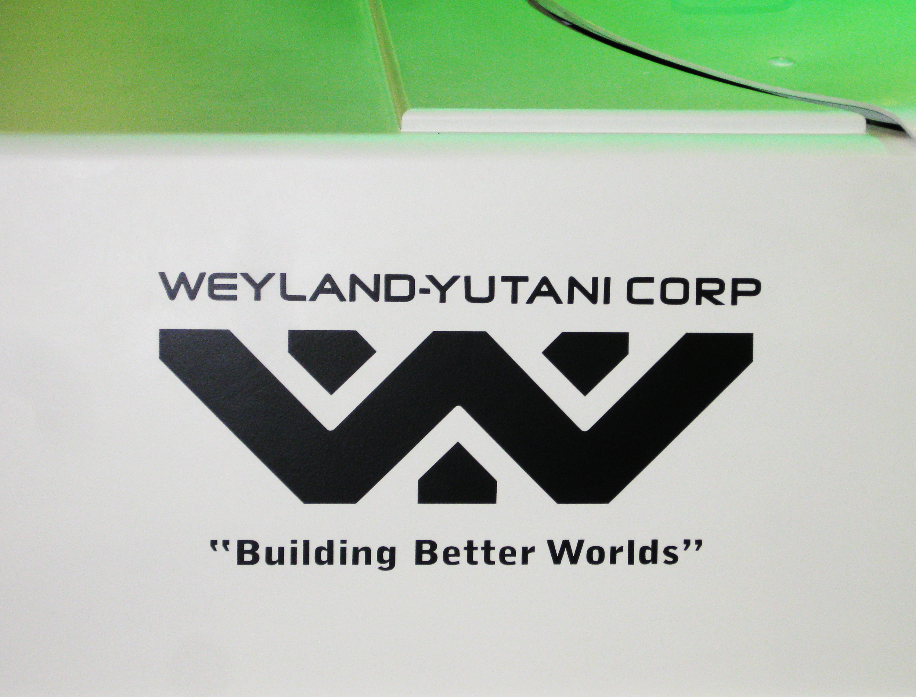 Photograph of a portion of a 20th Century Fox interactive display showcase for the Alien Anthology Blu-ray box set at the 2010 San Diego Comic Con International. The display mimics the cryo-tubes seen in the film Alien, with the logo of the fictitious Weyland-Yutani Corporation printed on the sides.